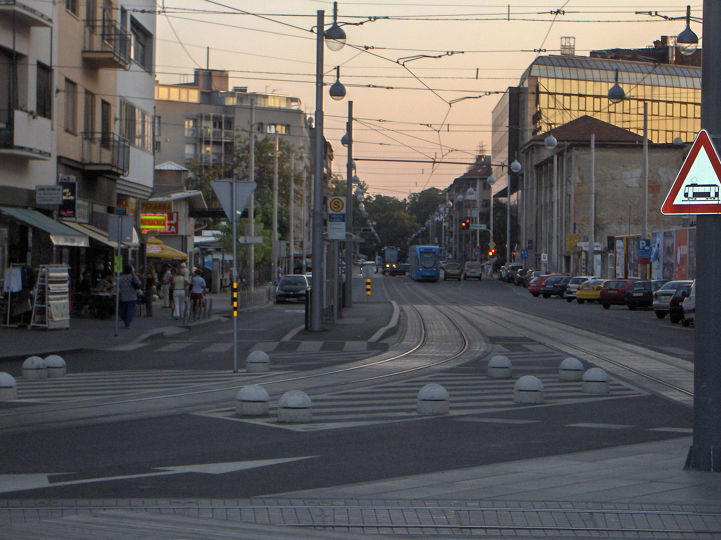 Pavao Šubić Avenue at Kvaternik Square in Zagreb, Croatia.